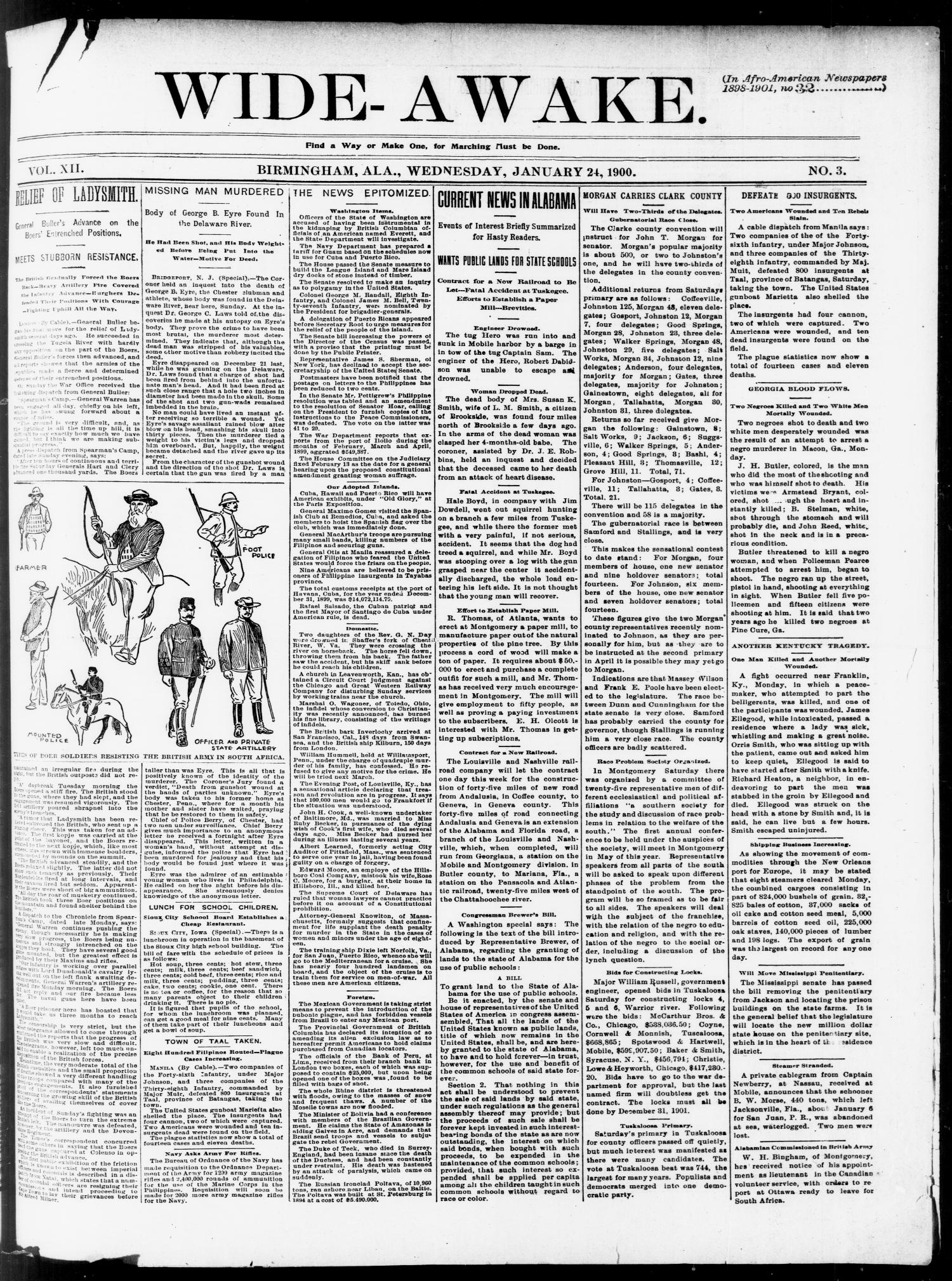 Front page of the January 24, 1900 issue of the Wide-Awake, a prominent African American newspaper in Birmingham, Alabama. Includes news reports on the Boer War and the Alabama gubernatorial election campaign.